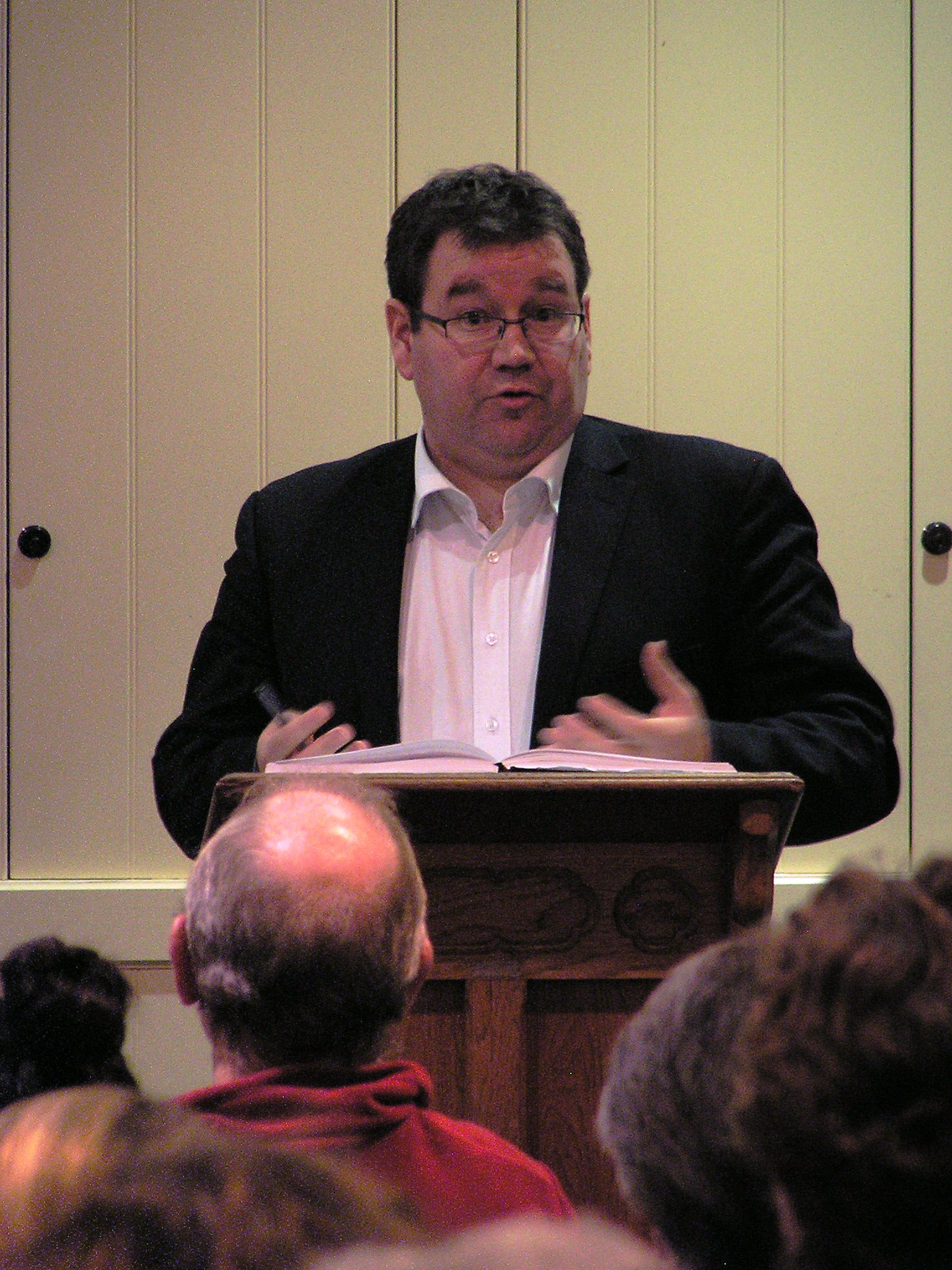 Grant Robertson at a post-budget meeting on 31 May 2011.